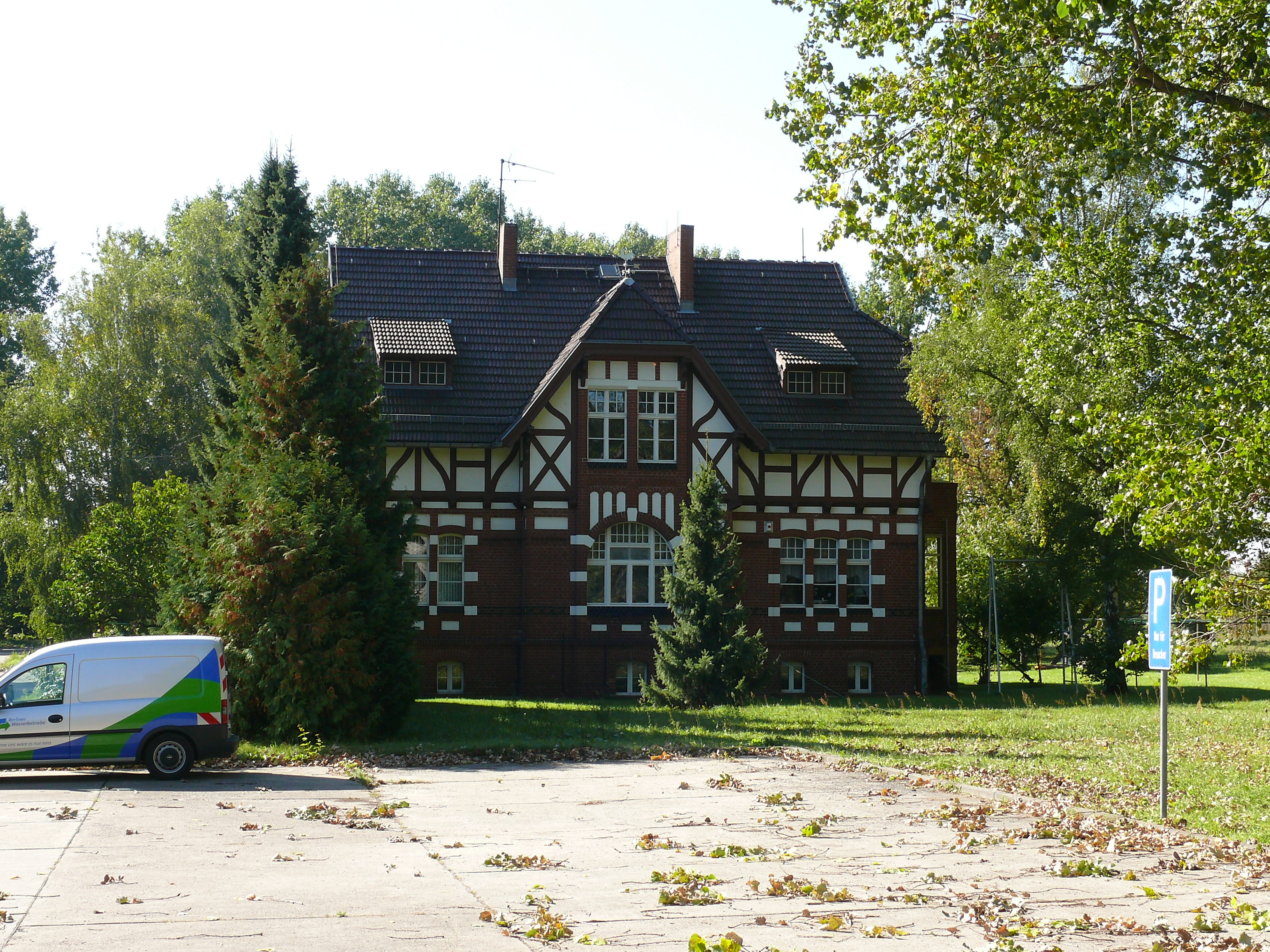 Berlin-Johannisthal Königsheideweg, Gebäude des ehem. Wasserwerk Johannisthal (heute der Name eines Naturschutzgebiets, das sich auf dem Foto in Blickrichtung ca. 100 m hinter dem Gebäude befindet)